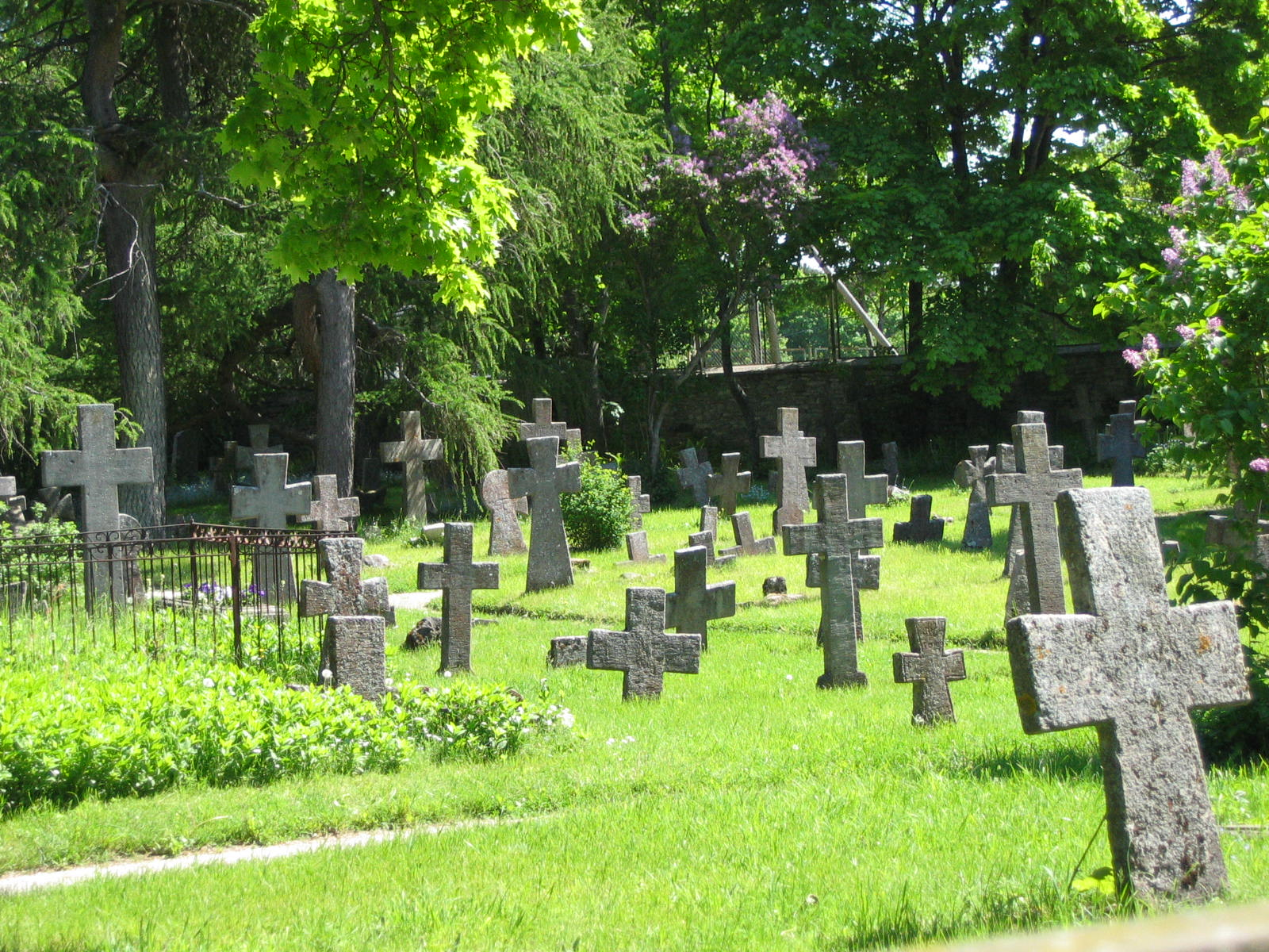 Convent of St. Bridget